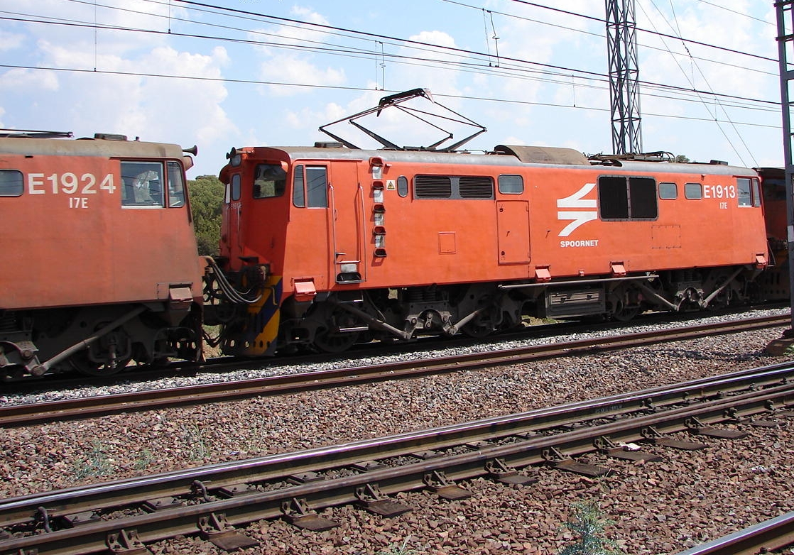 Spoornet Class 17E E1913Location: Capital Park, Pretoria, GautengReclassification: Modified and reclassified from Class 6E1 Series 8Rebuilding: E1913 re-entered service in 2007 after being rebuilt to Class 18E 18-340